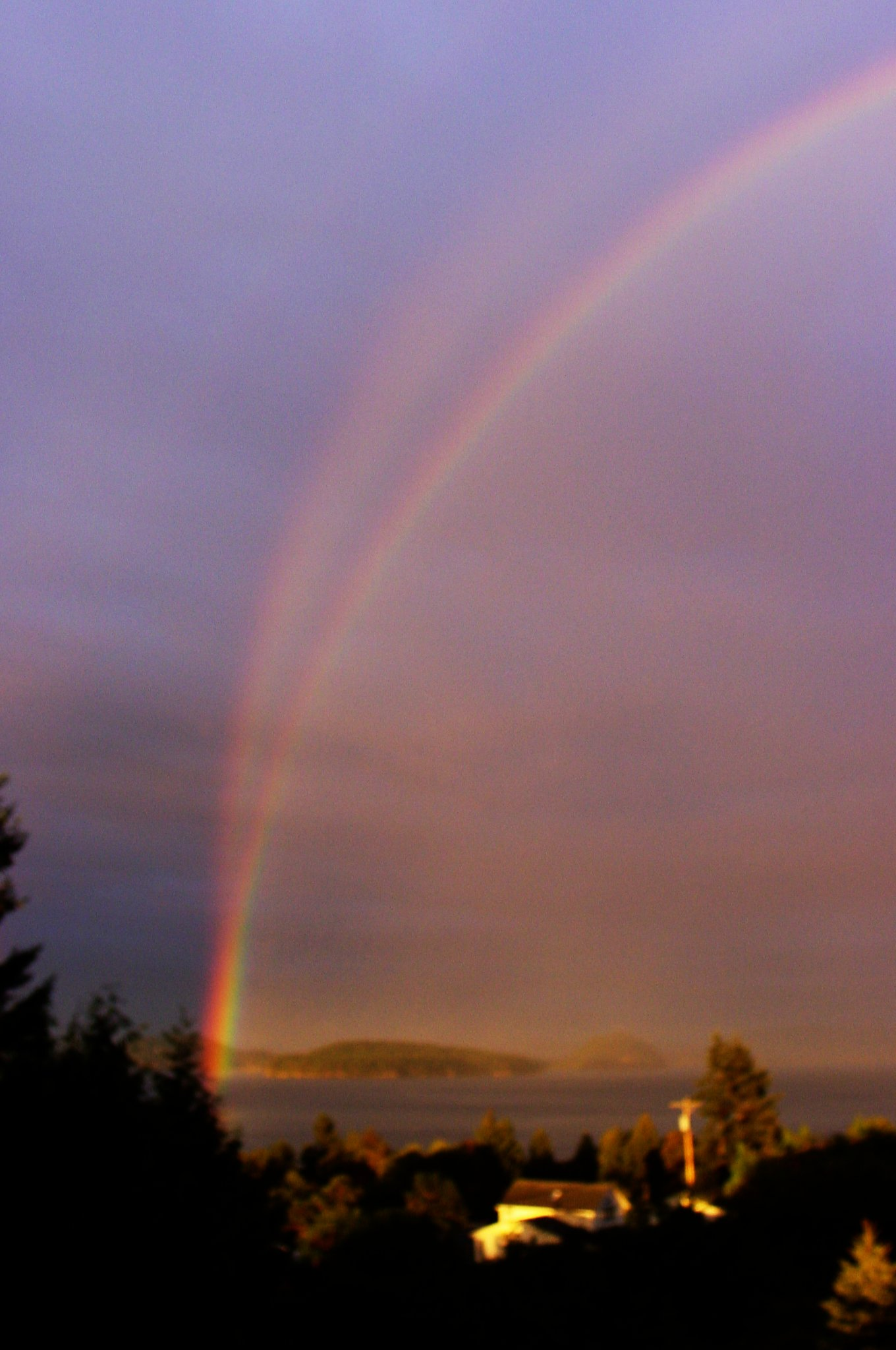 Example of a reflection rainbow (contrast enhanced) over Skagit Bay, Whidbey Is. WA with sun setting and reflected behind camera from water of Dugualla Bay, taken by Terry L Anderson 8/25/2007 (released to public domain Terry 17:13, 11 September 2007 (UTC)). Original resolution 2048 x 1360.